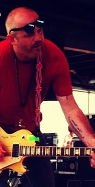 Mike McClure